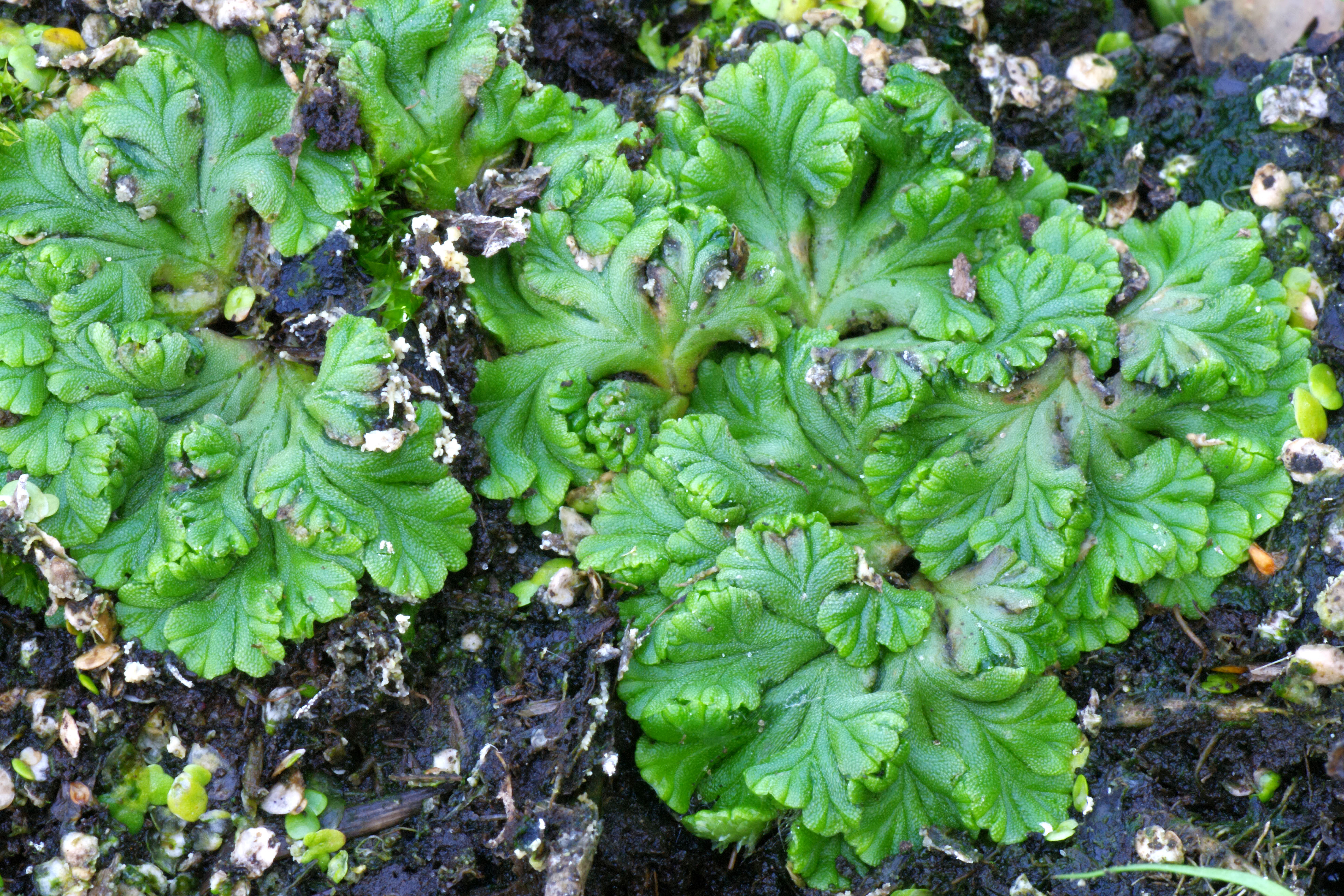 The floating liverwort species Ricciocarpos natans with a terrestrial form/stage.